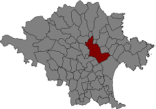 Location of Peralada in Alt Empordà